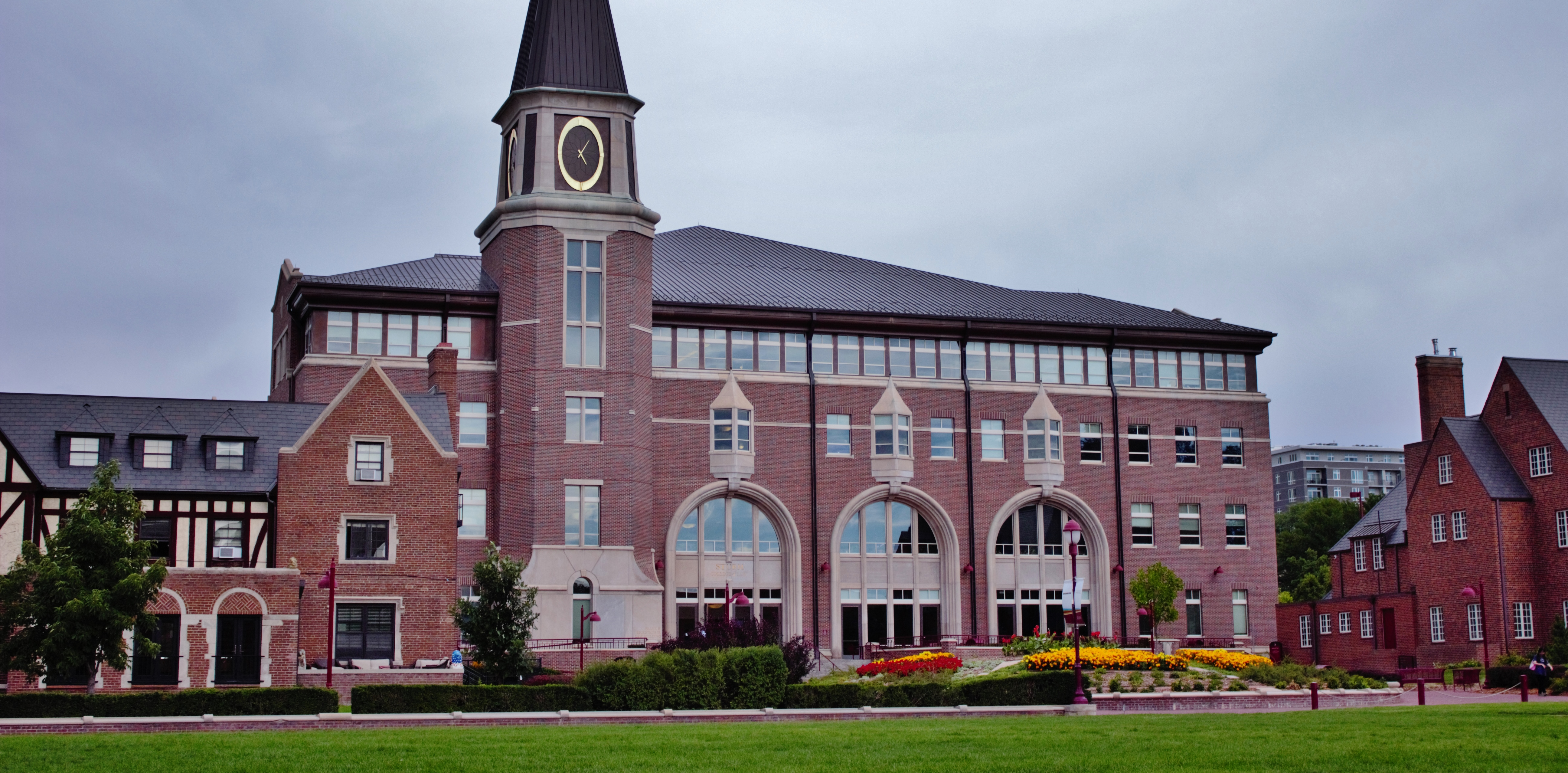 Sturm College of Law looking to the south east